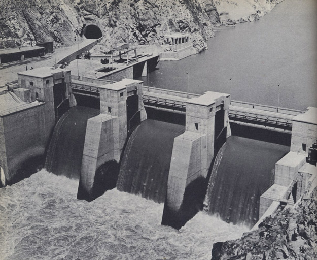 Metal shop in Kabul, Afghanistan. Original caption: "Sarobi hydro-power plant on Kabul River is one of the country's foremost power stations."